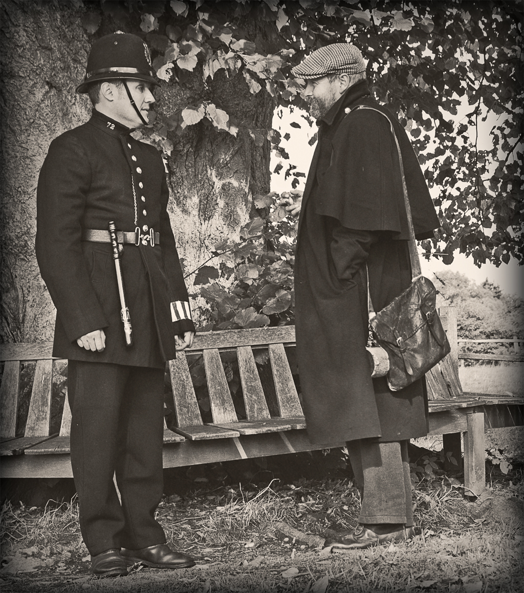 Victorian Police Constable with itinerant - recreation